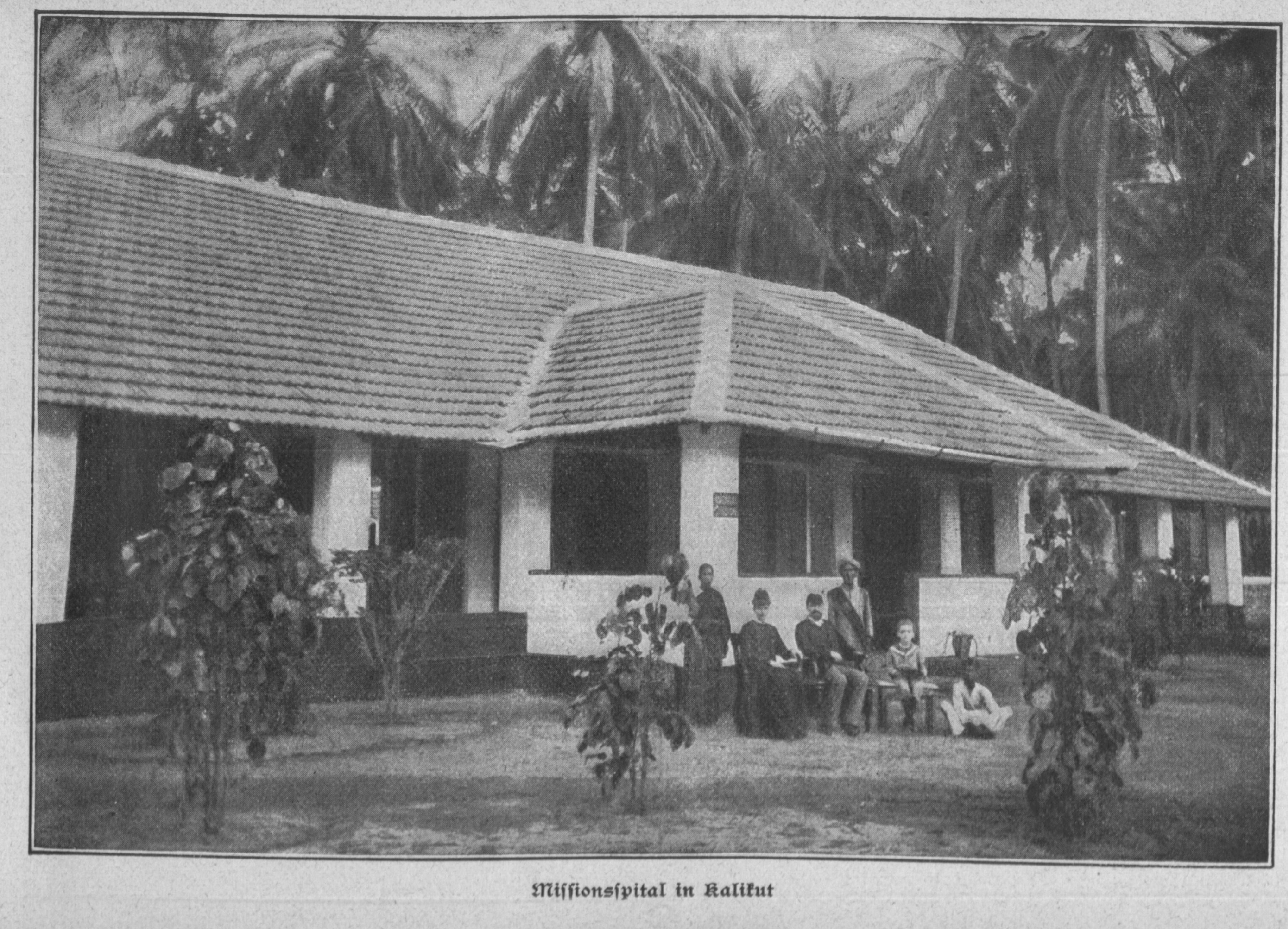 clerikal hospital in the year 1890, which was founded in Kalikut by Dr.Eugen Liebendörfer